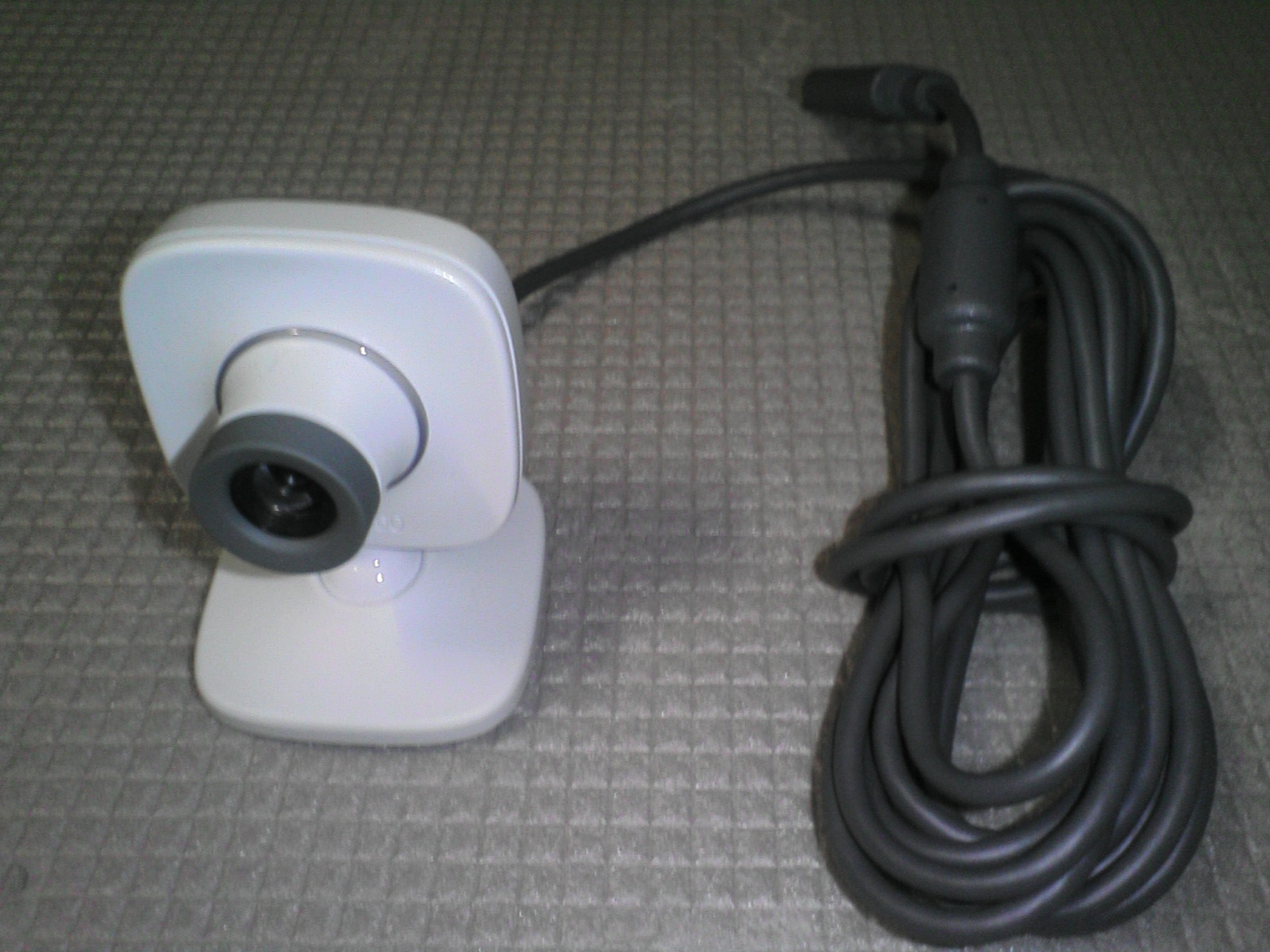 Xbox Live Vision Camera